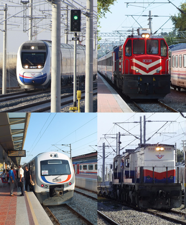 Four main services of the Turkish State Railways (TCDD): High-speed, Mainline, Commuter and Freight.